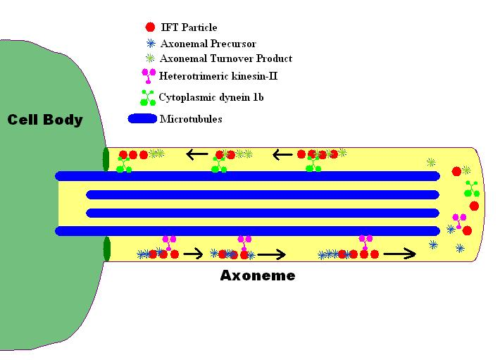 I am the author of this file